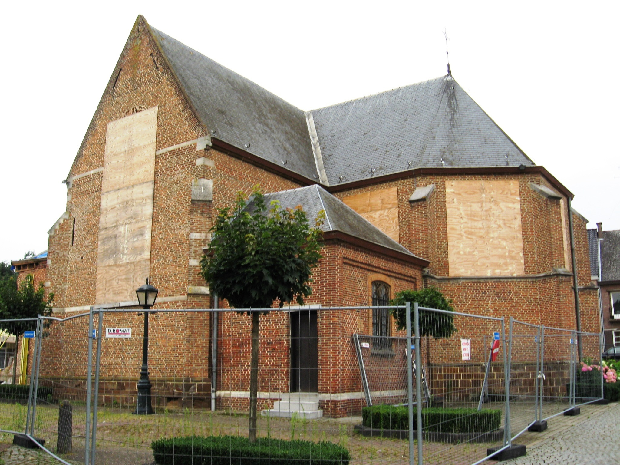 Church of Saint Willibrord in Meldert, Lummen, Limburg, Belgium